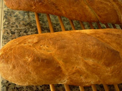 Fresh baked French bread in Houston, Texas.